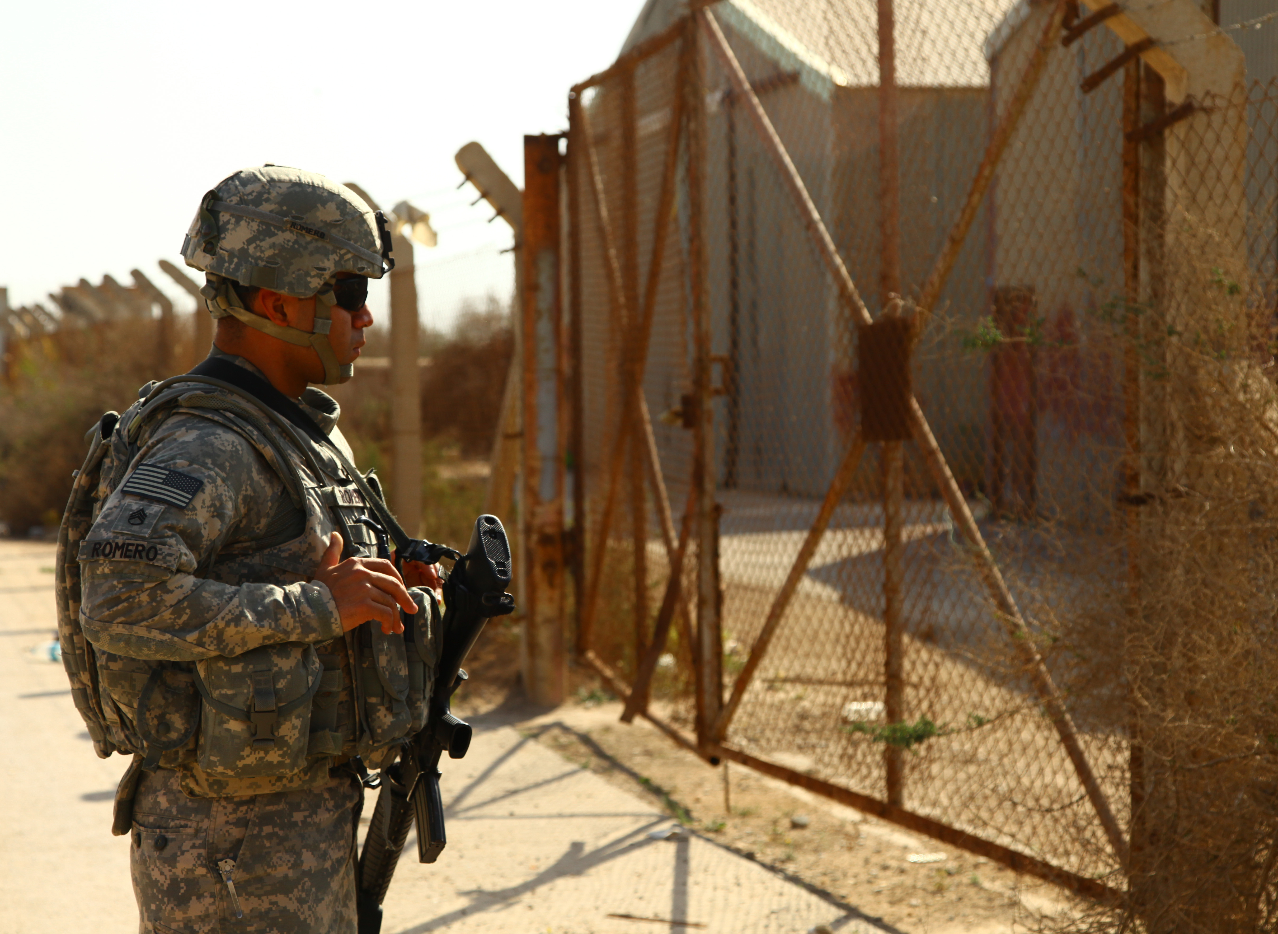 U.S. Army Staff Sgt. Ronny Romero, an Arlington, Va. native, assigned to 17th Fires Brigade, 1st Armored Division, Contingency Operating Base Basra, assesses the current state of the former Camp Craw in United States District -South, Iraq, Feb. 16. Romero is validating the bases to be cleared for reconciliation. Unit: Joint Combat Camera Center Iraq DVIDS Tags: mead; 55th signal company combat camera; 55th Signal Company; Five Mile Market; psyops; iraq; army; adelita; basra; war; 17th Fires Brigade; usd-s